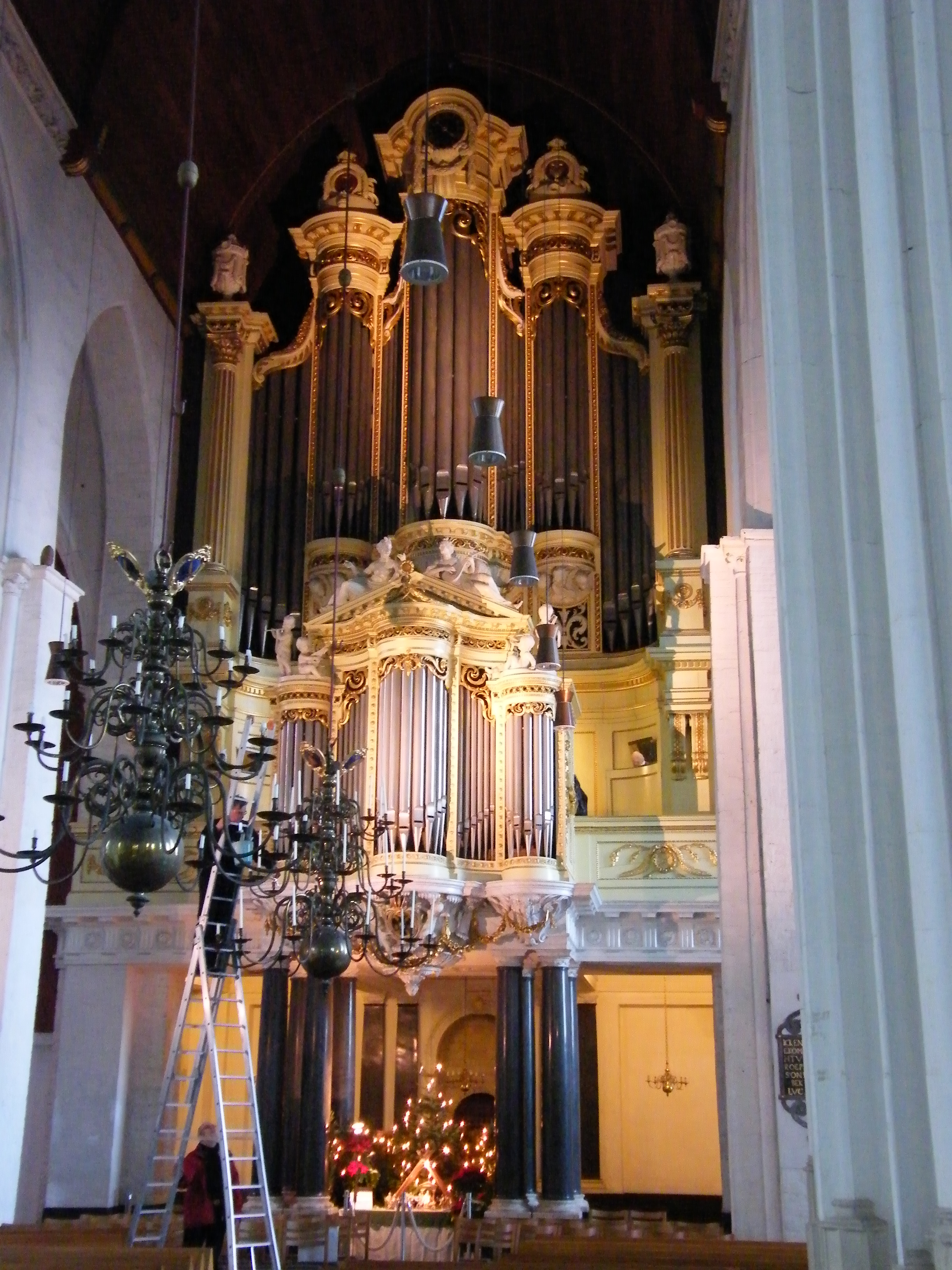 König pipeorgan built bij Ludwig König in the St. Steven Church in Nijmegen.